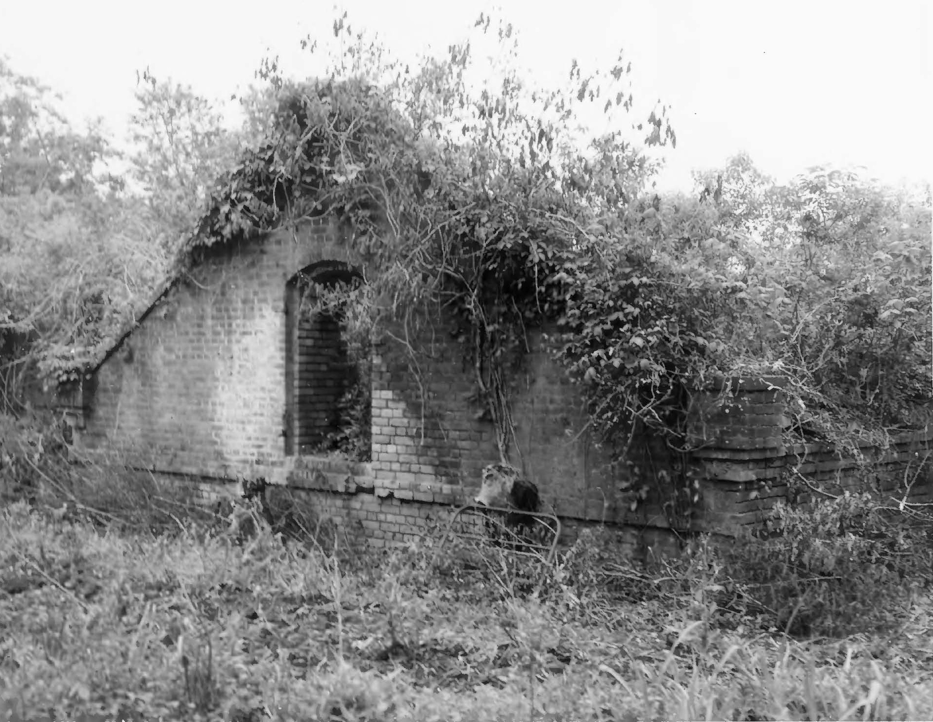 Fort St. Philip, Plaquemines Parish, Louisiana. Portion of brick structures at old fort partly overgrown with plants.